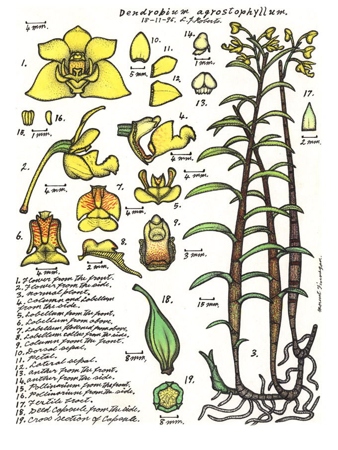 This image is one of a series by Lewis Roberts